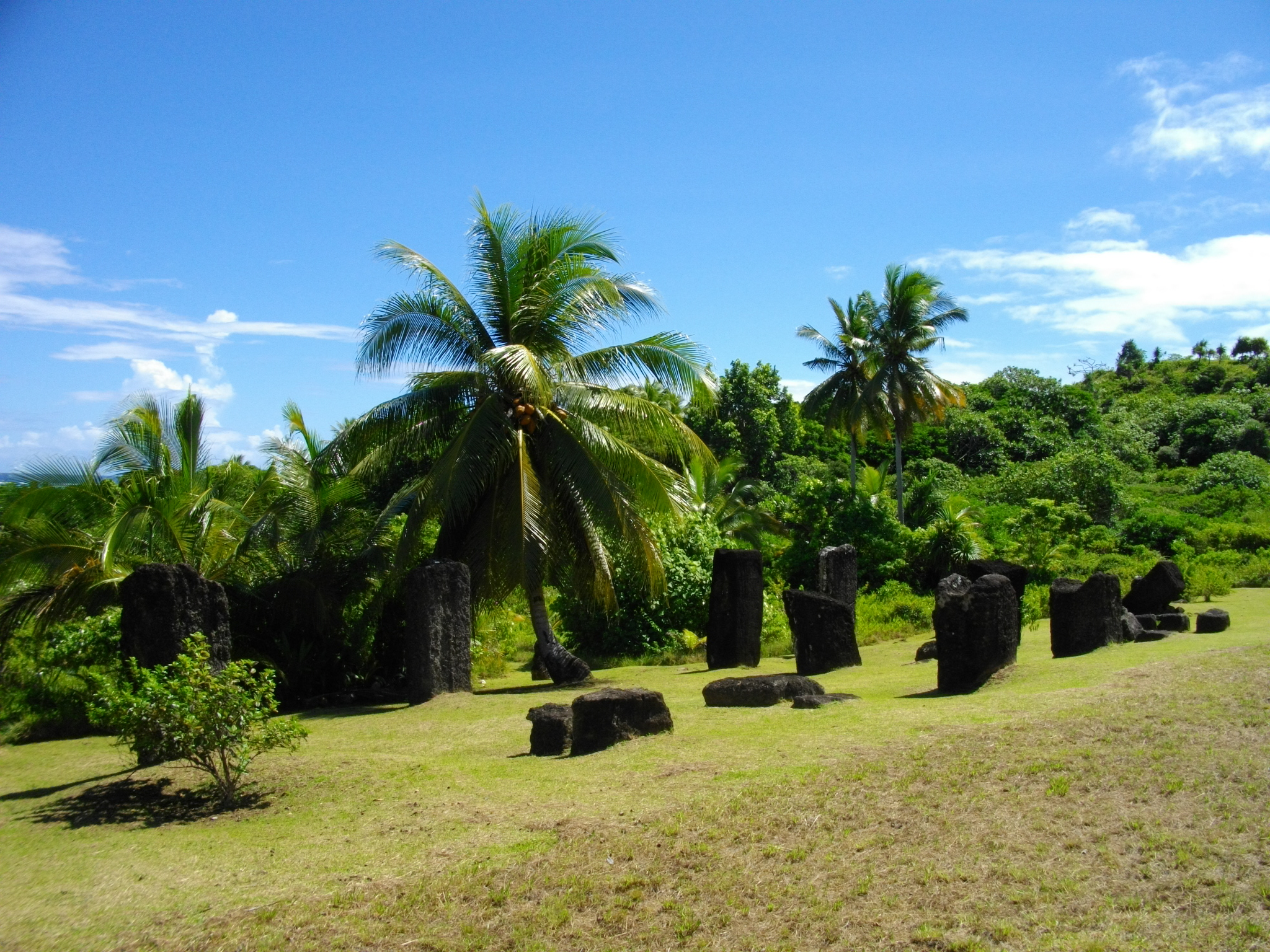 Badrulchau Stone Monoliths